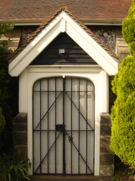 Entrance porch at St Peter's Church, West Blatchington, City of Brighton and Hove, England. Restored in 1987.